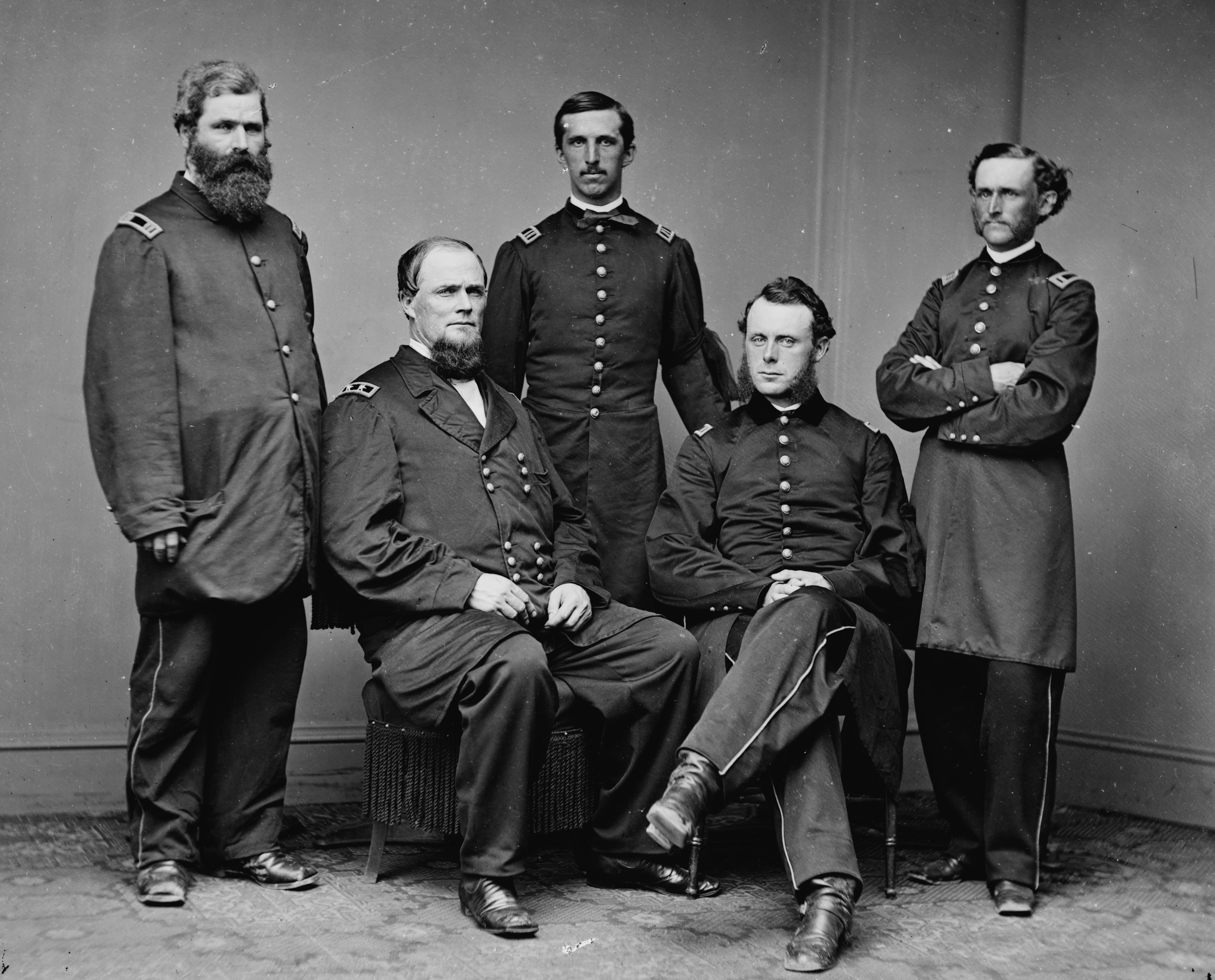 photo of James W. McMillan (1825-1903)